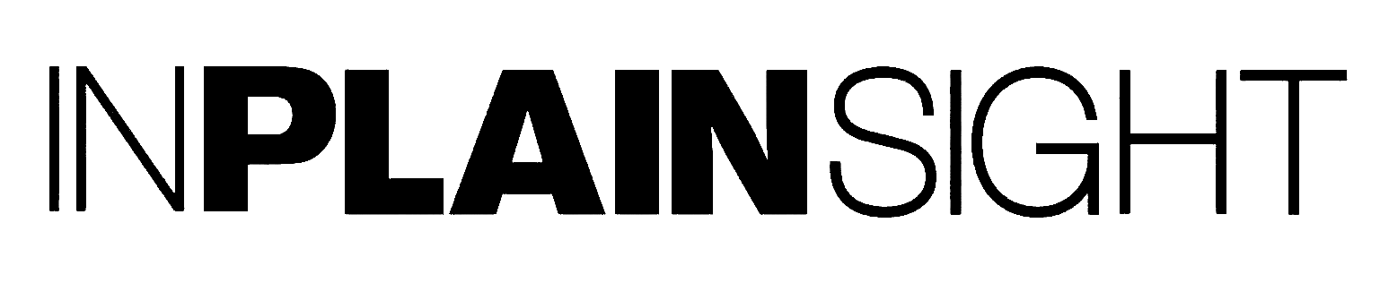 Logo In Plain Sight